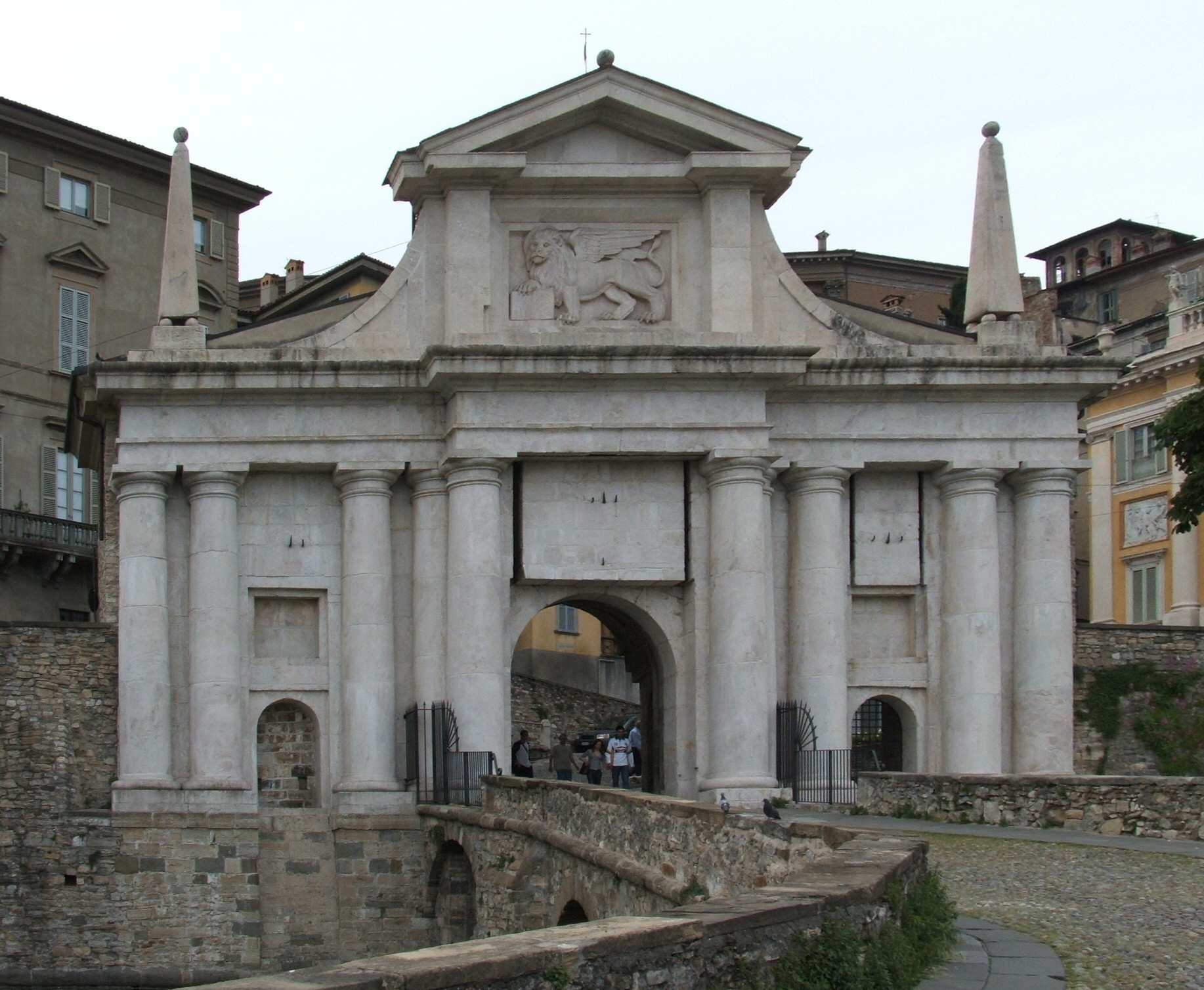 Bergamo, Lombardy, Italy - San Giacomo Gate